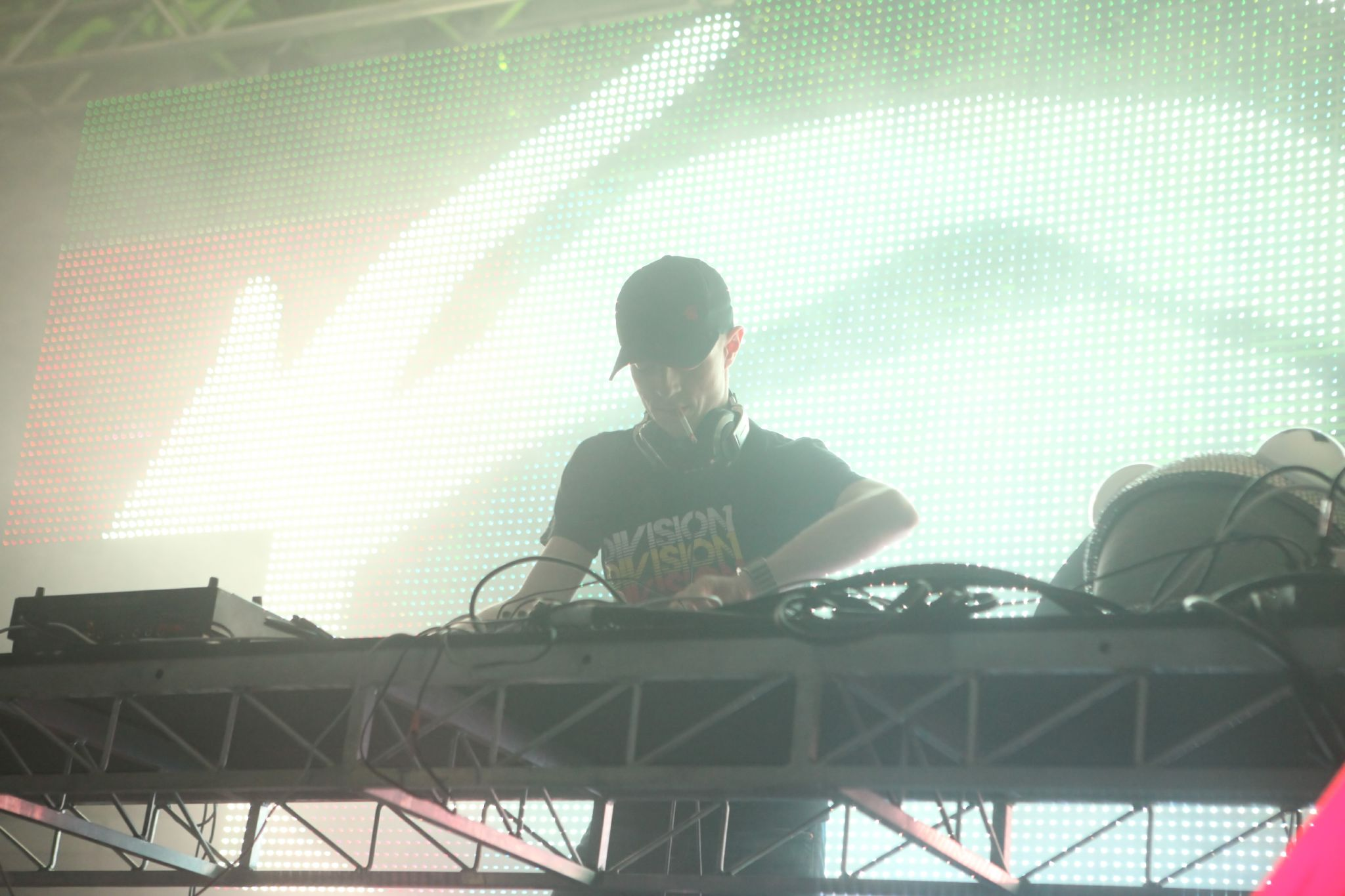 The Canadian producer deadmau5 2009-02-14.